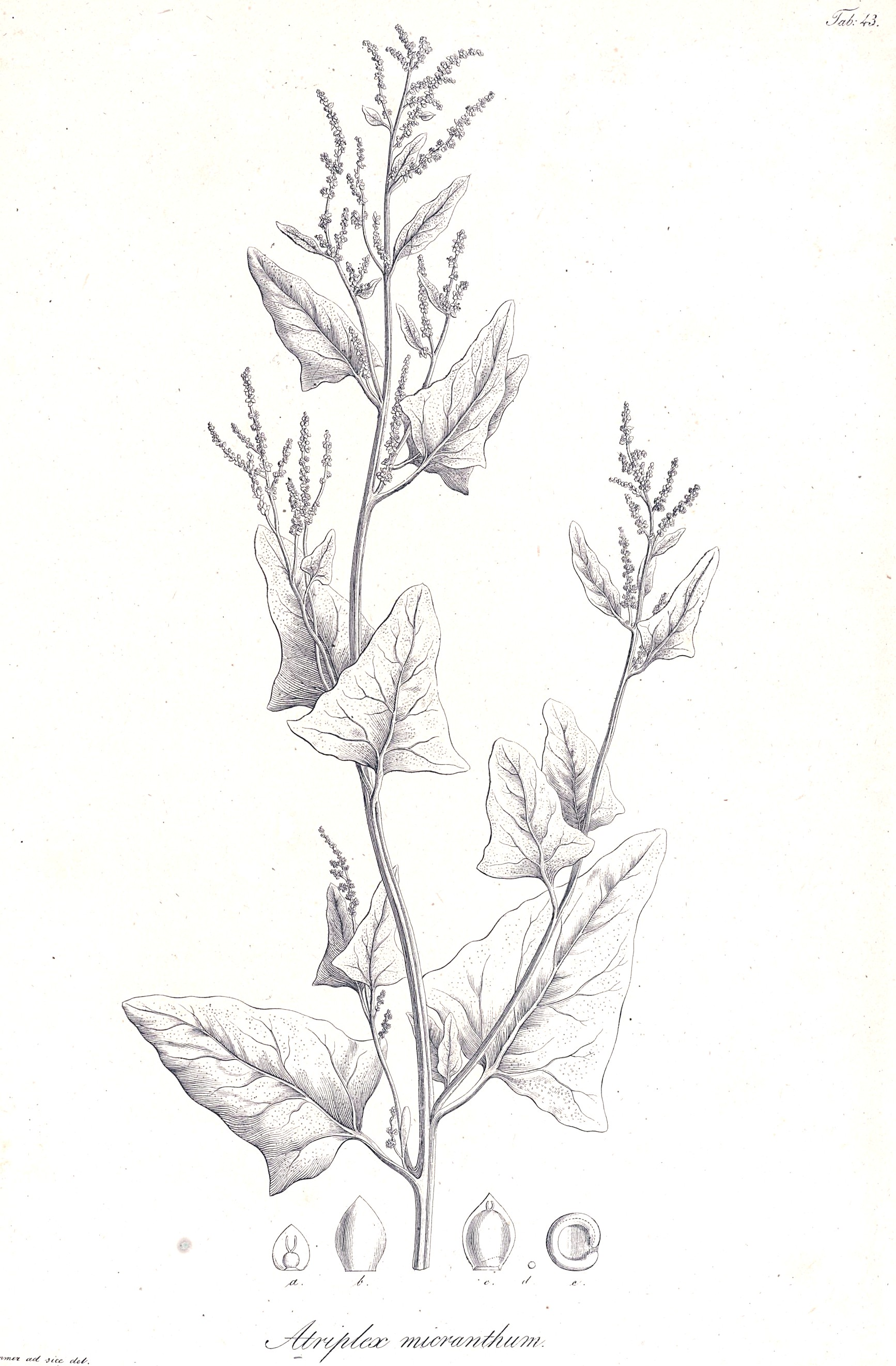 Atriplex micrantha C.A.Mey. in Ledeb., Illustration from: Ledebour, C.F.v. 1829. Icones plantarum novarum vel imperfecte cognitarum floram Rossicam, imprimis Altaicam, illustrantes 1: 11, tab. 43.